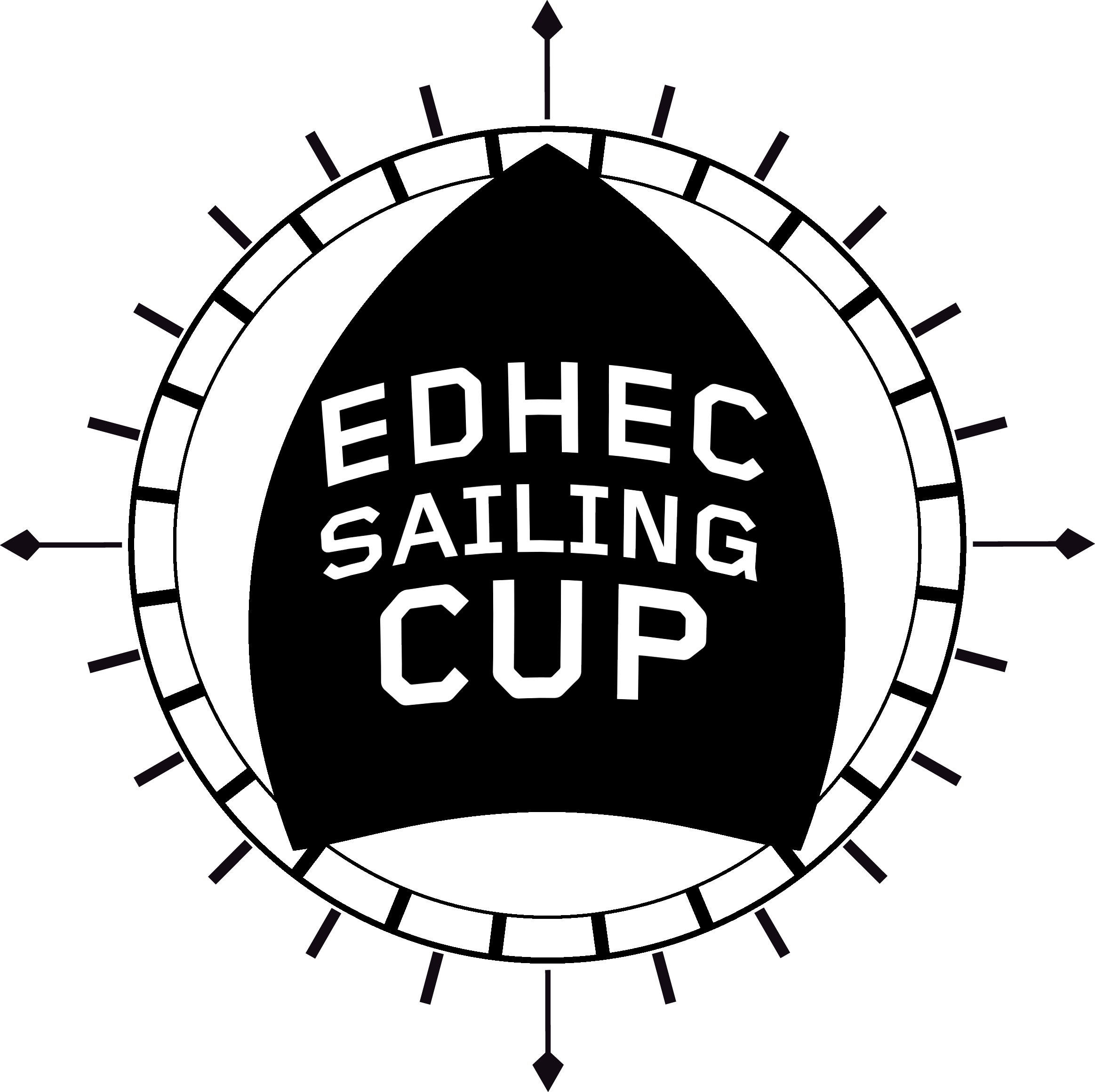 English-speaking logo of the Course Croisière EDHEC (known as EDHEC Sailing Cup).